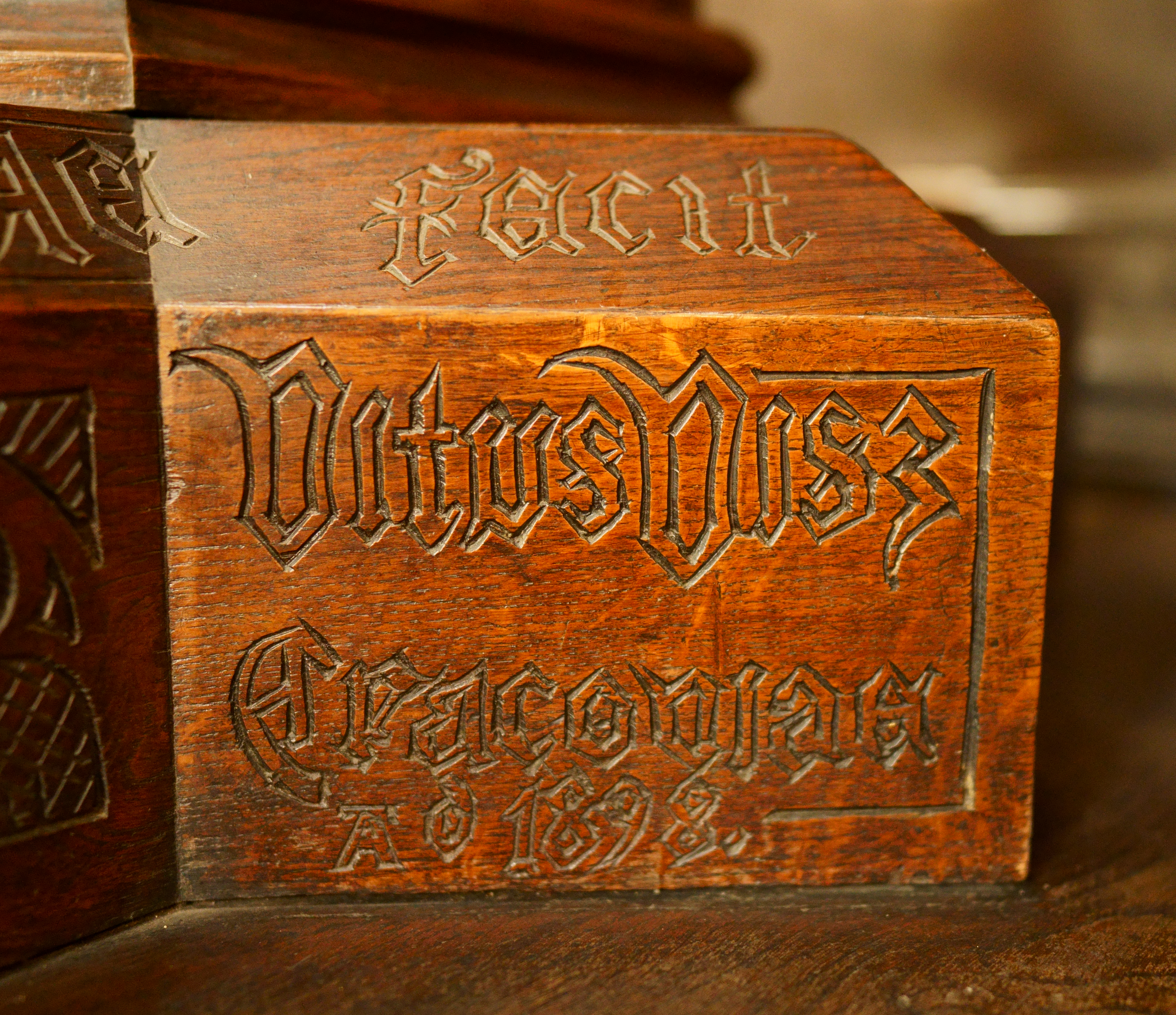 krakow st mary's church pulpit Wit Wisz